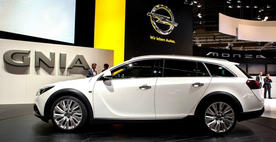 Opel Insignia Country Tourer